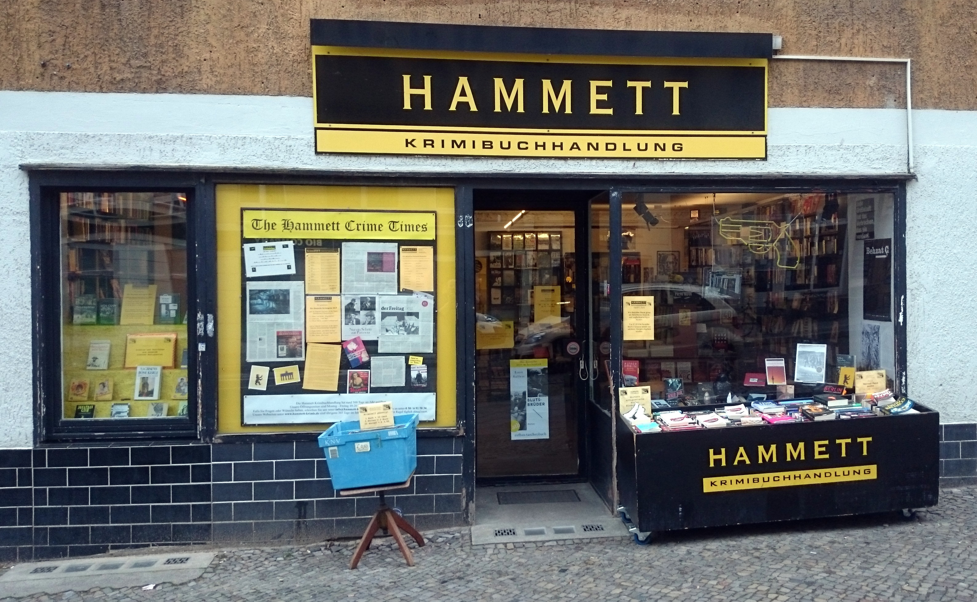 Berlin in winter.